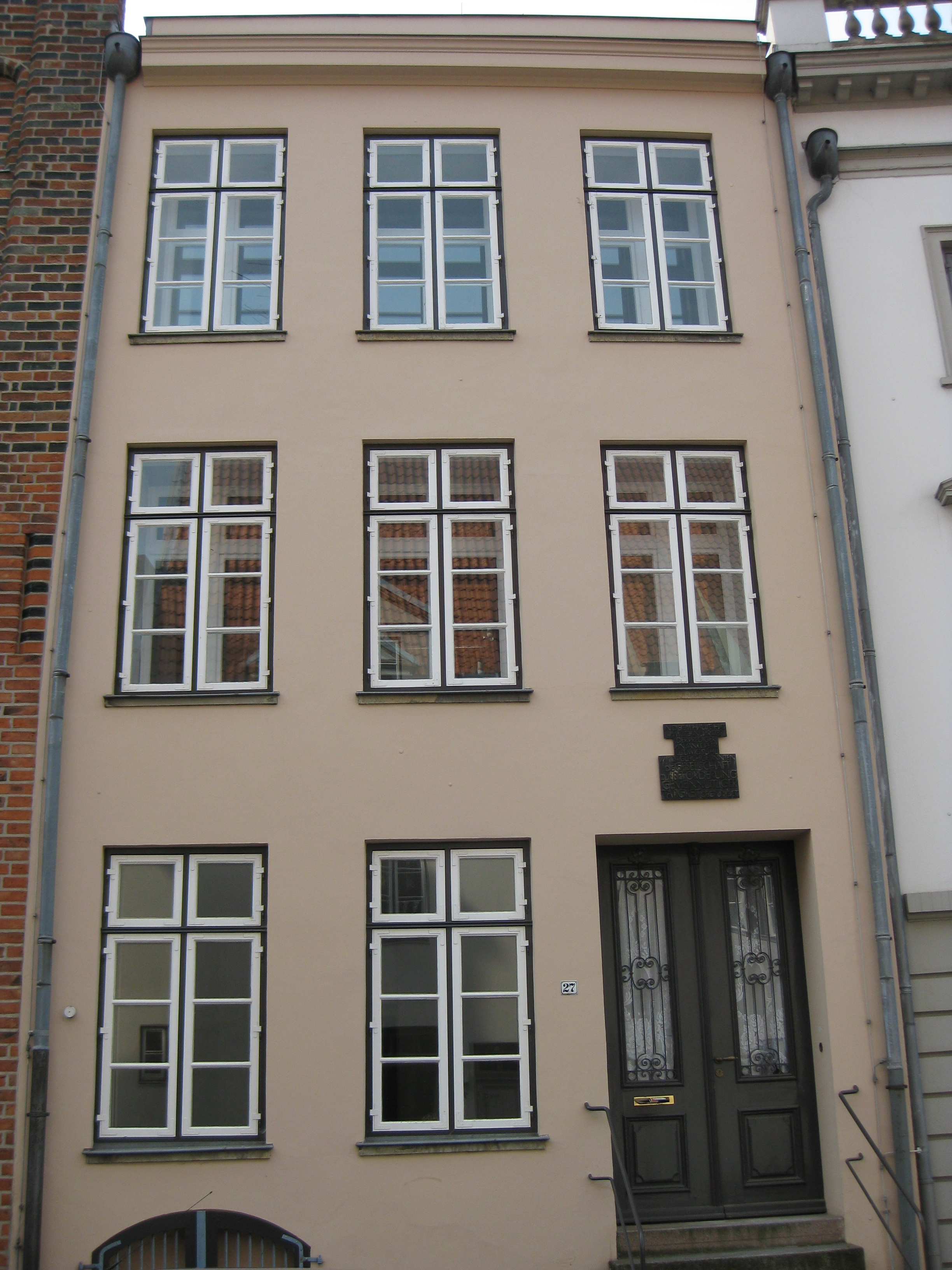 The building Große Petersgrube 27 was used as a rectory by St. Petri church until 1912. Today it is part of the college of music in Lübeck, Germany.